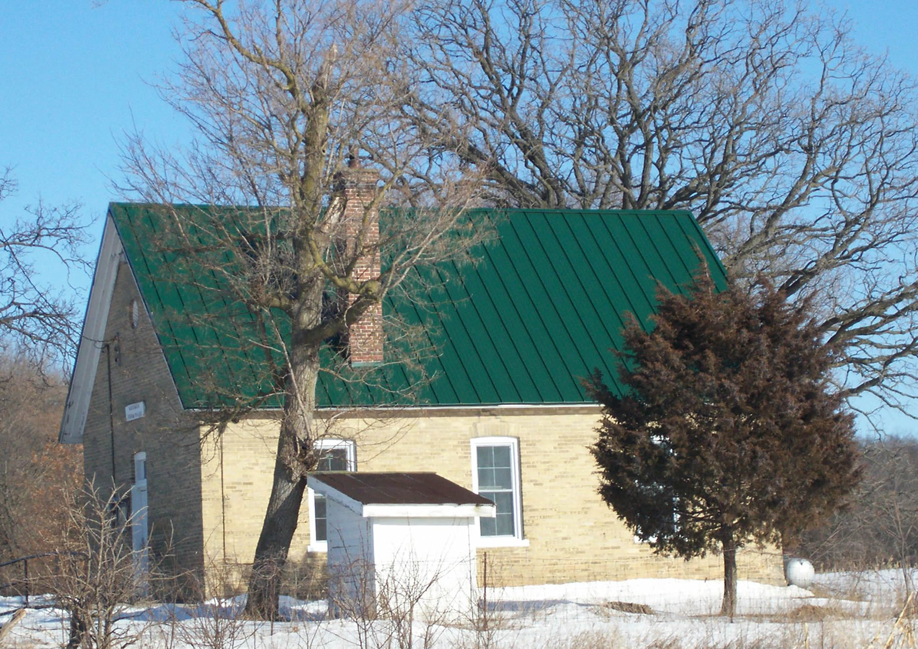 The townhall for the Town of Buffalo in Marquette County, Wisconsin, USA. Cropped from the original.